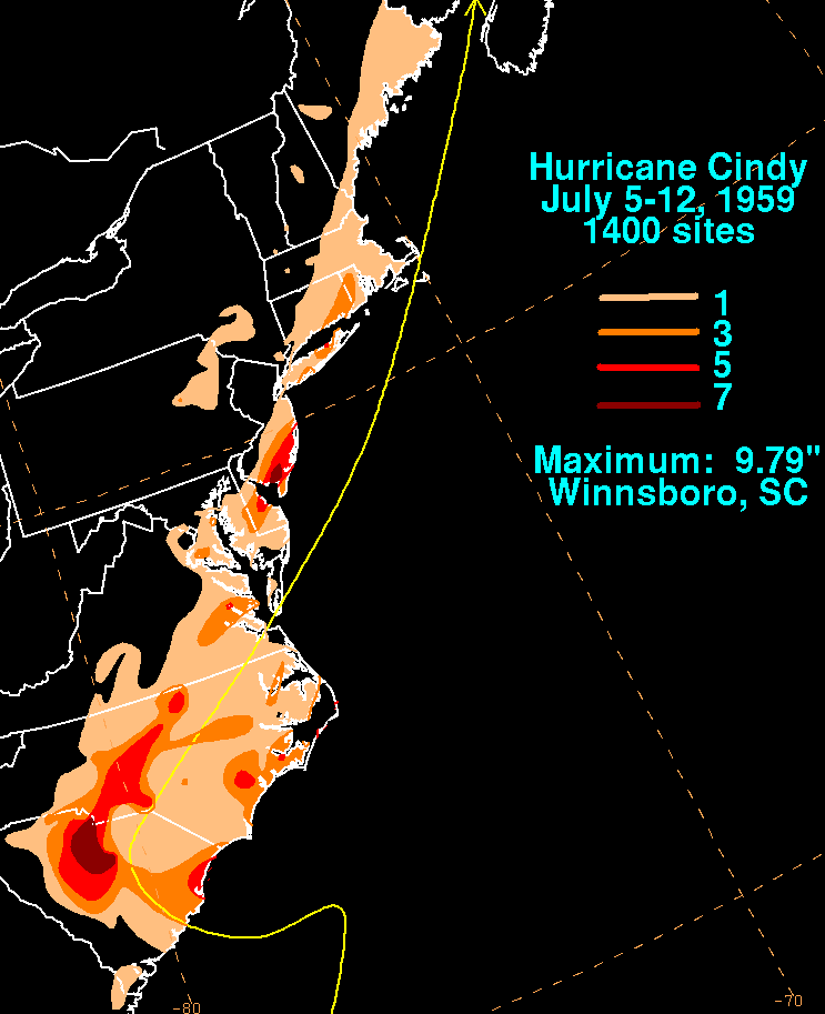 Storm total rainfall map of Hurricane Cindy during July 1959.